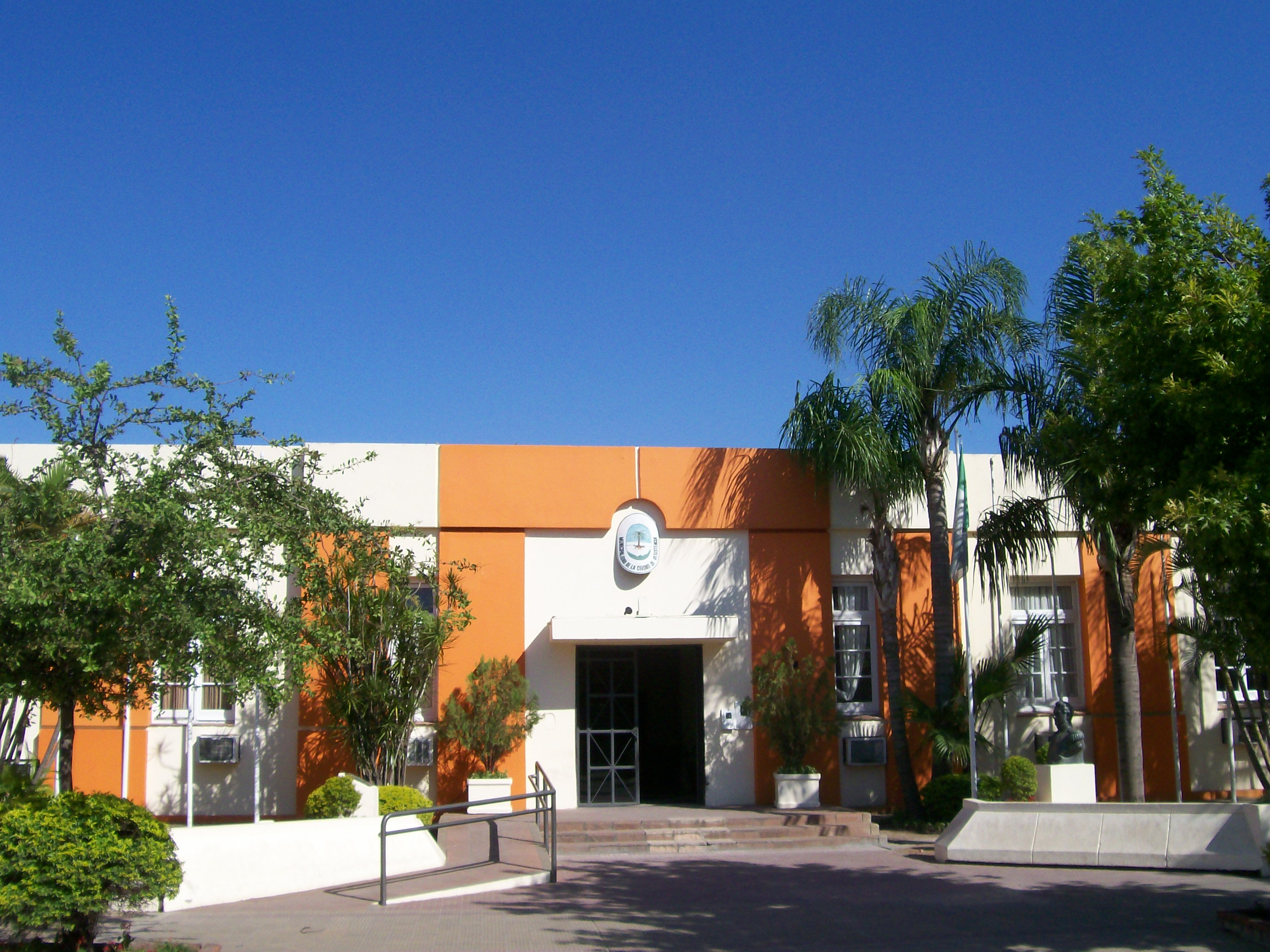 Front view of Resistencia Municipalty (town hall), Resistencia, Chaco, Argentina.